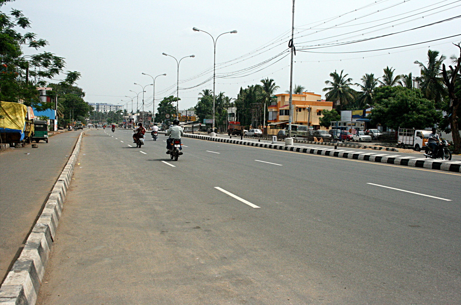 100 feet road velachery